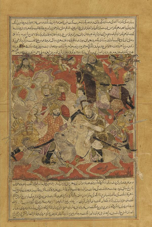 Folio from a Tarikhnama (Book of history) by Balami